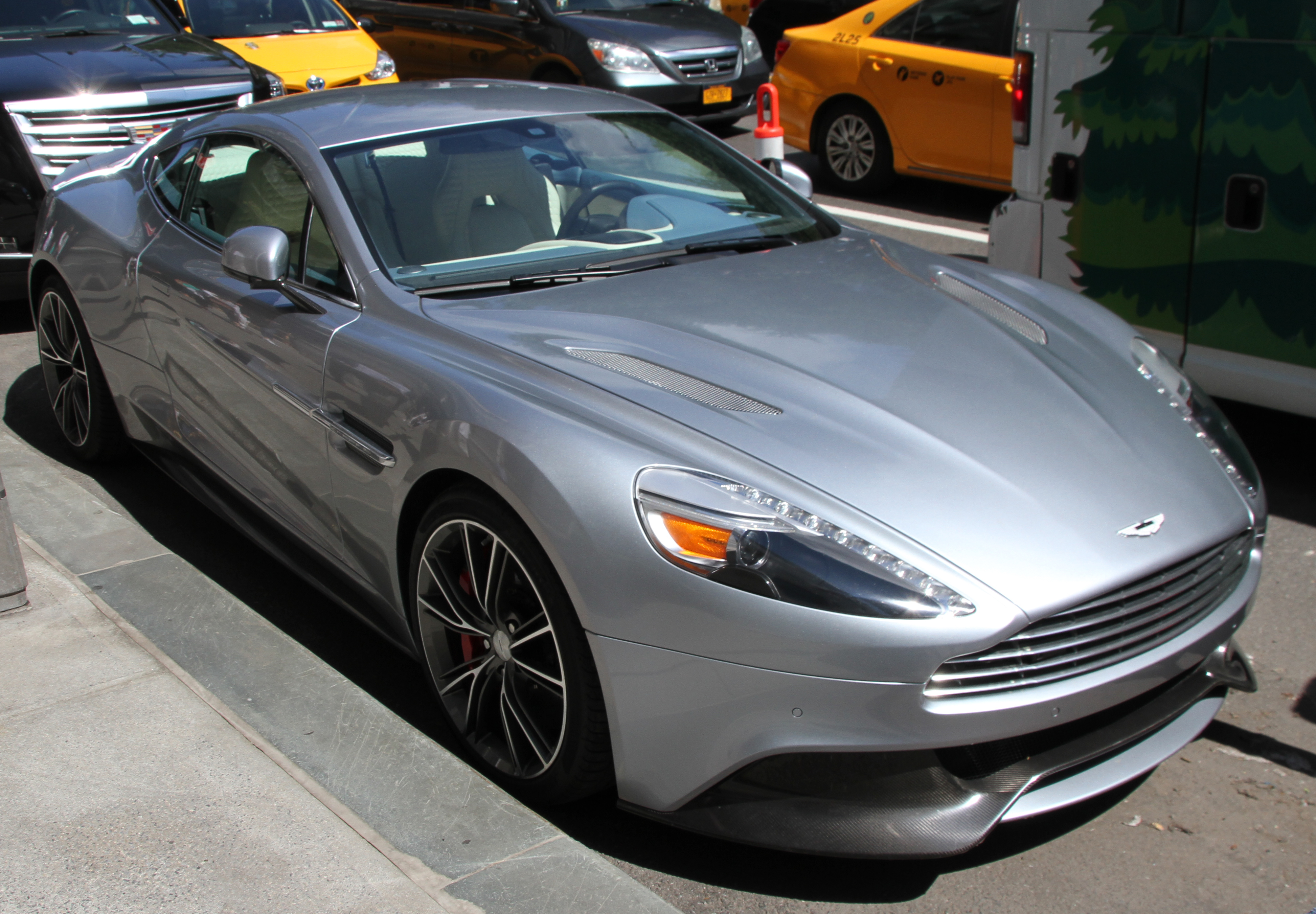 Aston Martin Vanquish